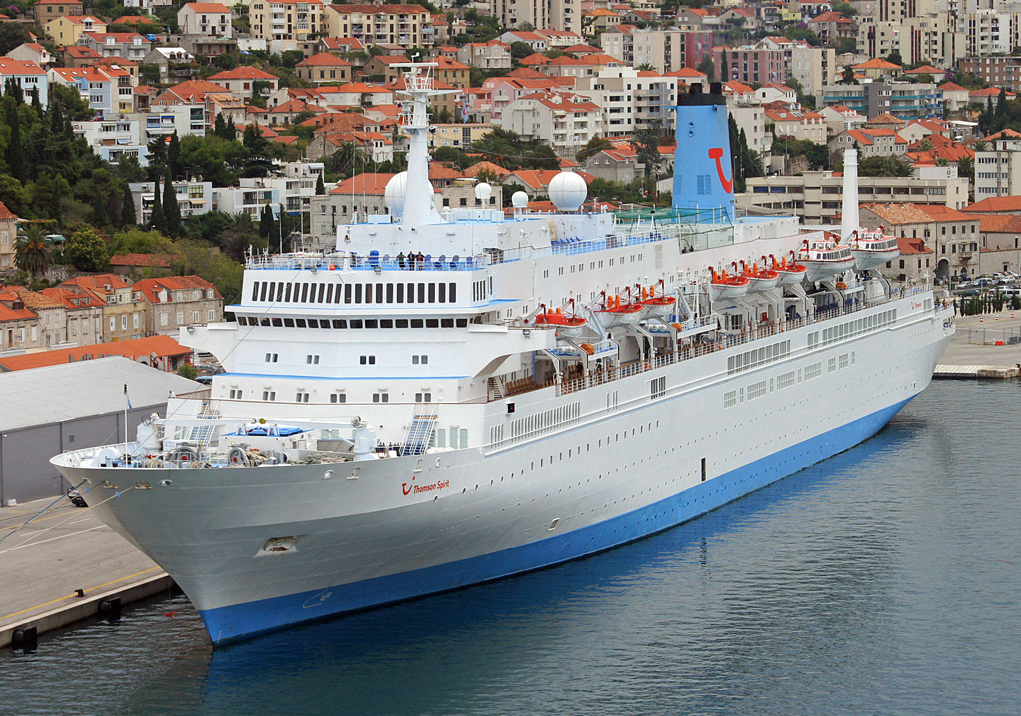 The cruise ship Thomson Spirit moored at Dubrovnik on October 13, 2010.